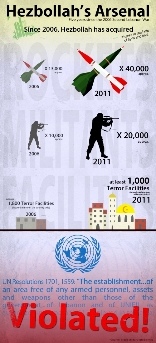 infographic presenting Hezbollah’s gross violations of United Nations Security Council Resolution 1701. The resolution calls for Hezbollah to remain disarmed and bans paramilitary activity south of the Litani River. The Israel Defense Forces Facebook • blog • Twitter